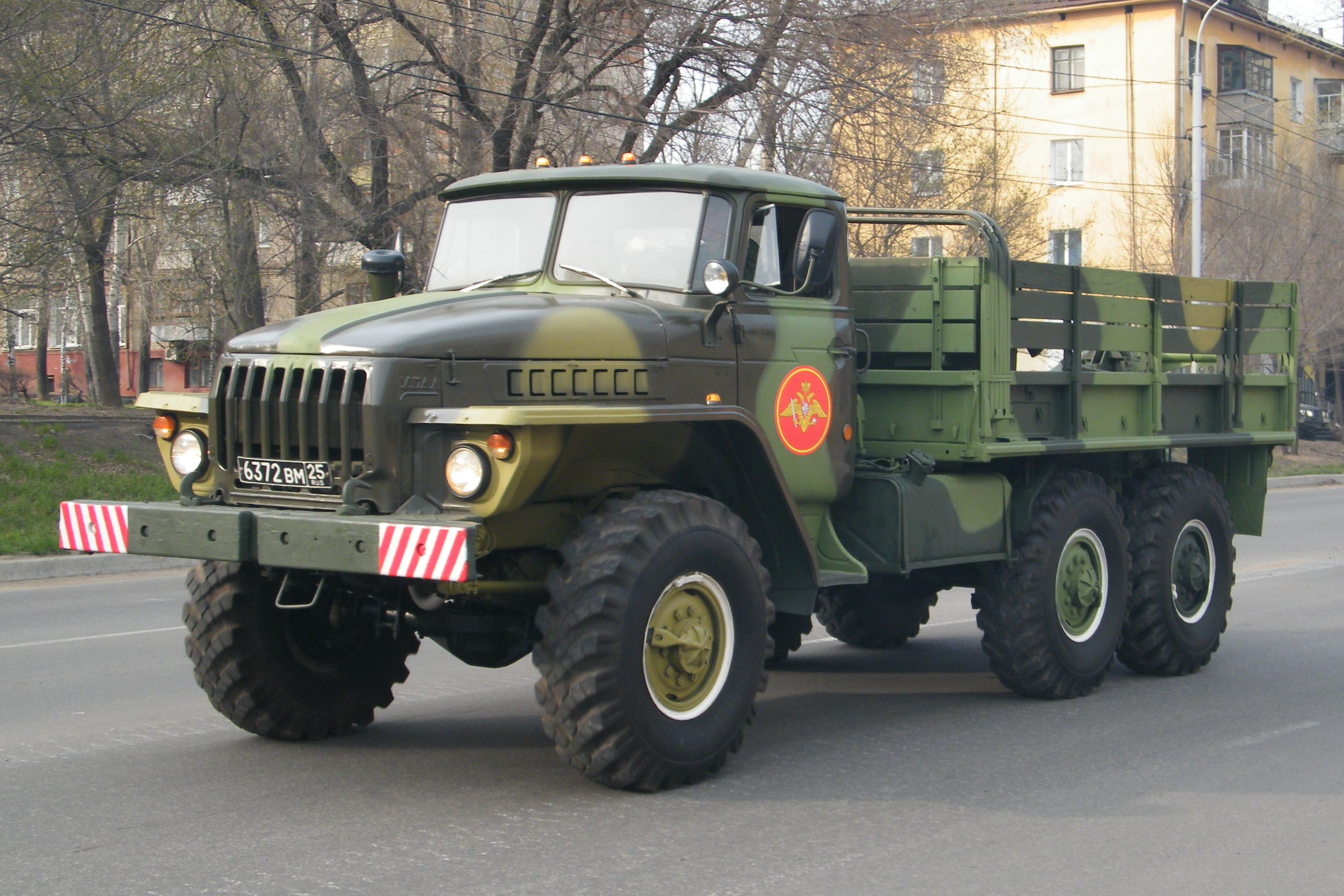 Урал-4320